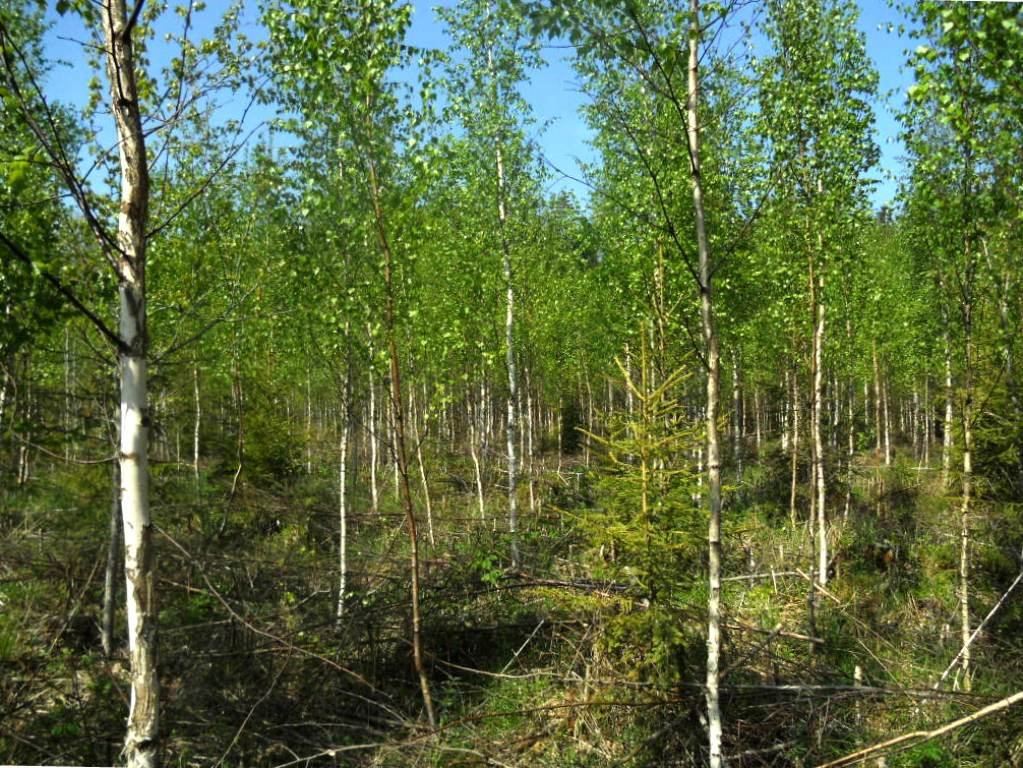 Lighting of young forest — first felling.